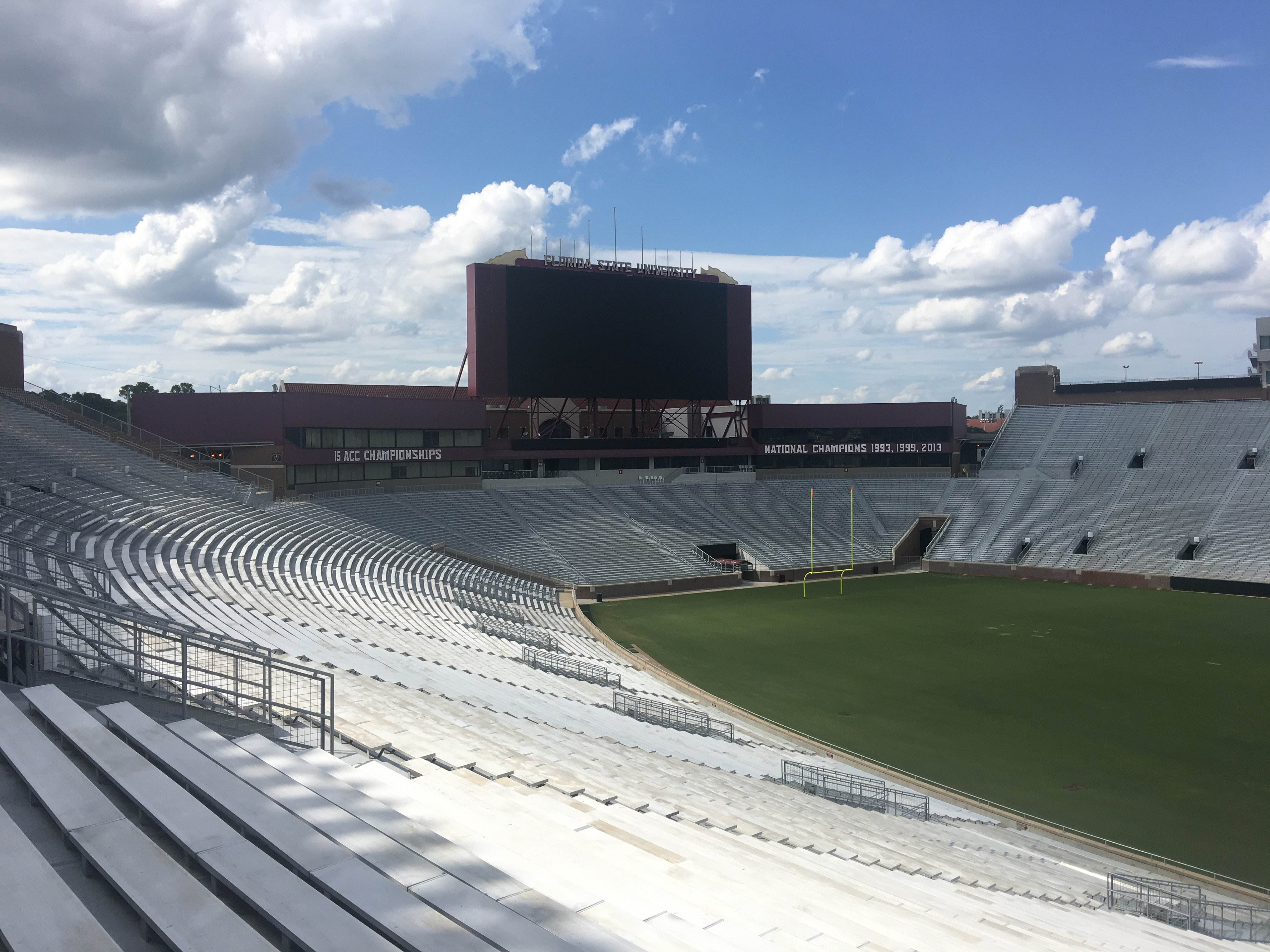 Renovated North End zone of Doak Campbell Stadium